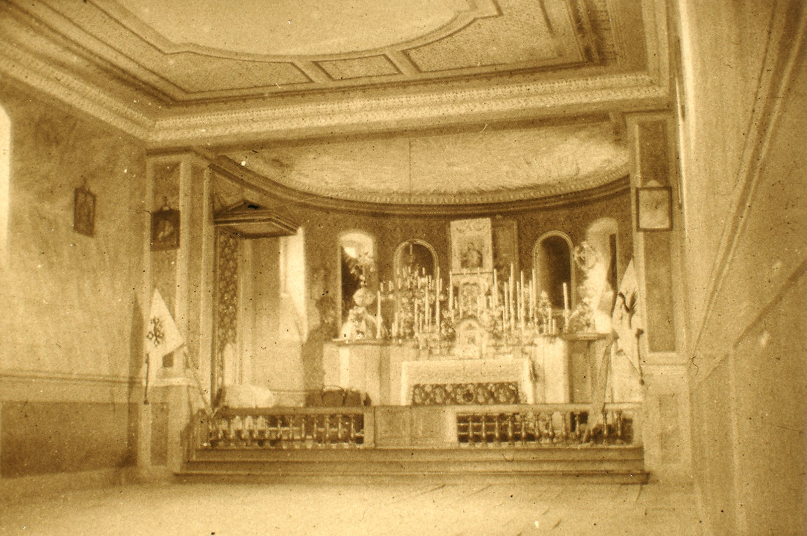 273 Albania. Interior of the Church of Saint Alexander of Orosh, in Mirdita, 1905